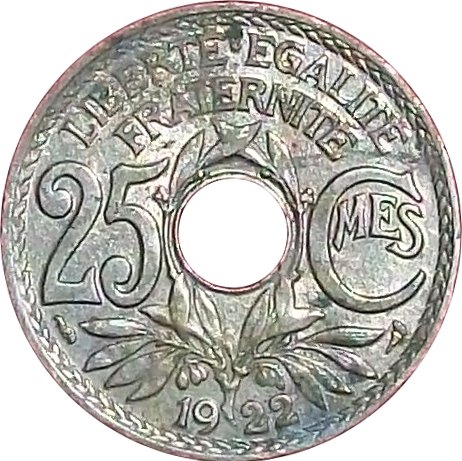 French Coin value of 25 Centimes dating to 1922. Reverse Side. Caption: Liberte Egalite Fraternite 25 centimes 1922. Symbol: Olive branch.